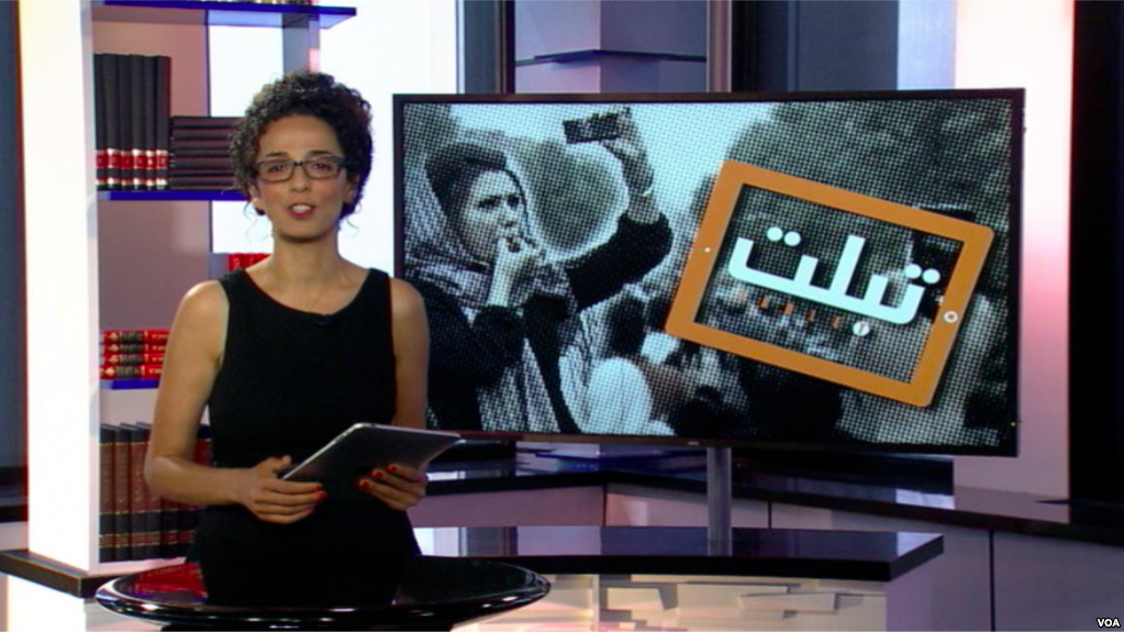 Masih Alinejad performing Tablet Show in VOA Persian